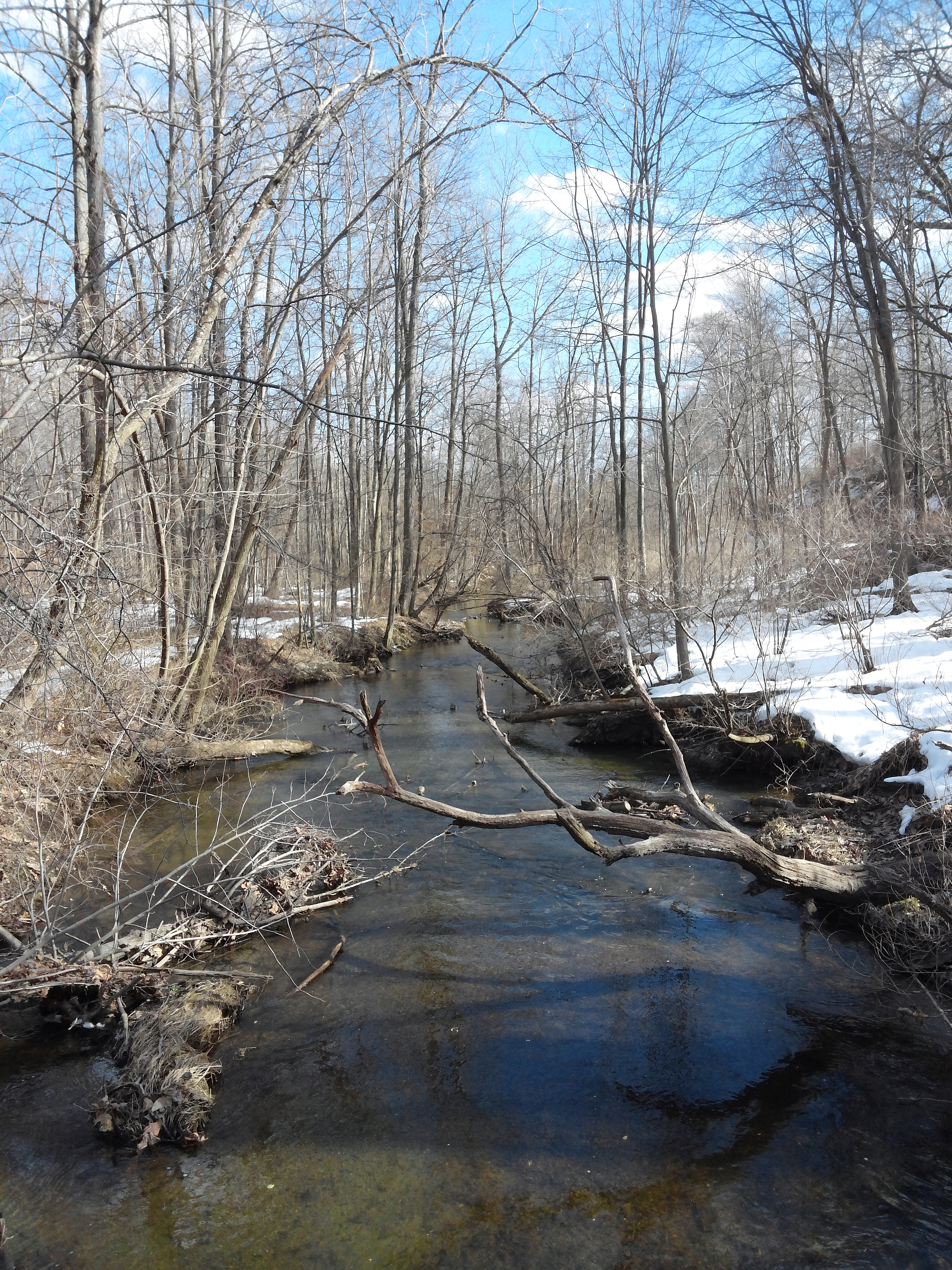 The Casperkill (also known as Casper Creek) looking downstream while standing on a fallen tree that crosses the stream. This portion of the kill is on Vassar College's campus, several hundred meters downstream of where it is a) joined by the Fonteynkill and b) flows out of Sunset Lake.